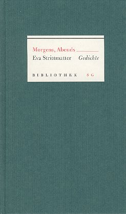 Book cover of Eva Strittmatter "Morgen, Abends" 2001